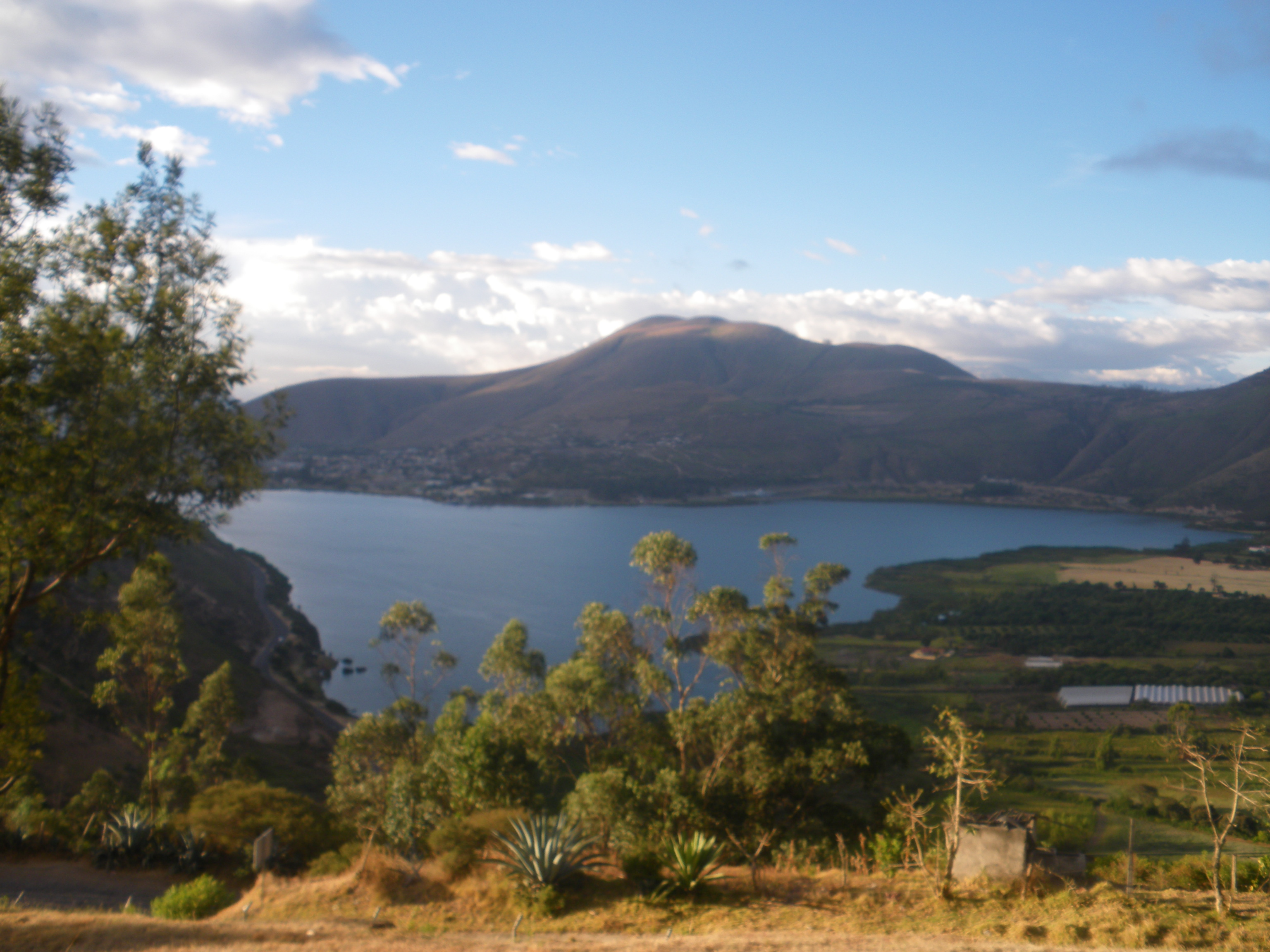 Yahuarcocha lake from the San Miguel Mirador, Ibarra